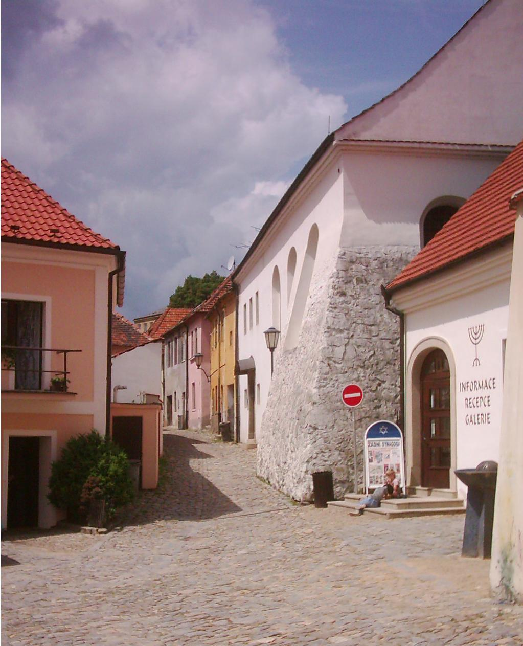 A typical street and the synagogue in the old Jewish quarter of Třebíč, Czech Republic.